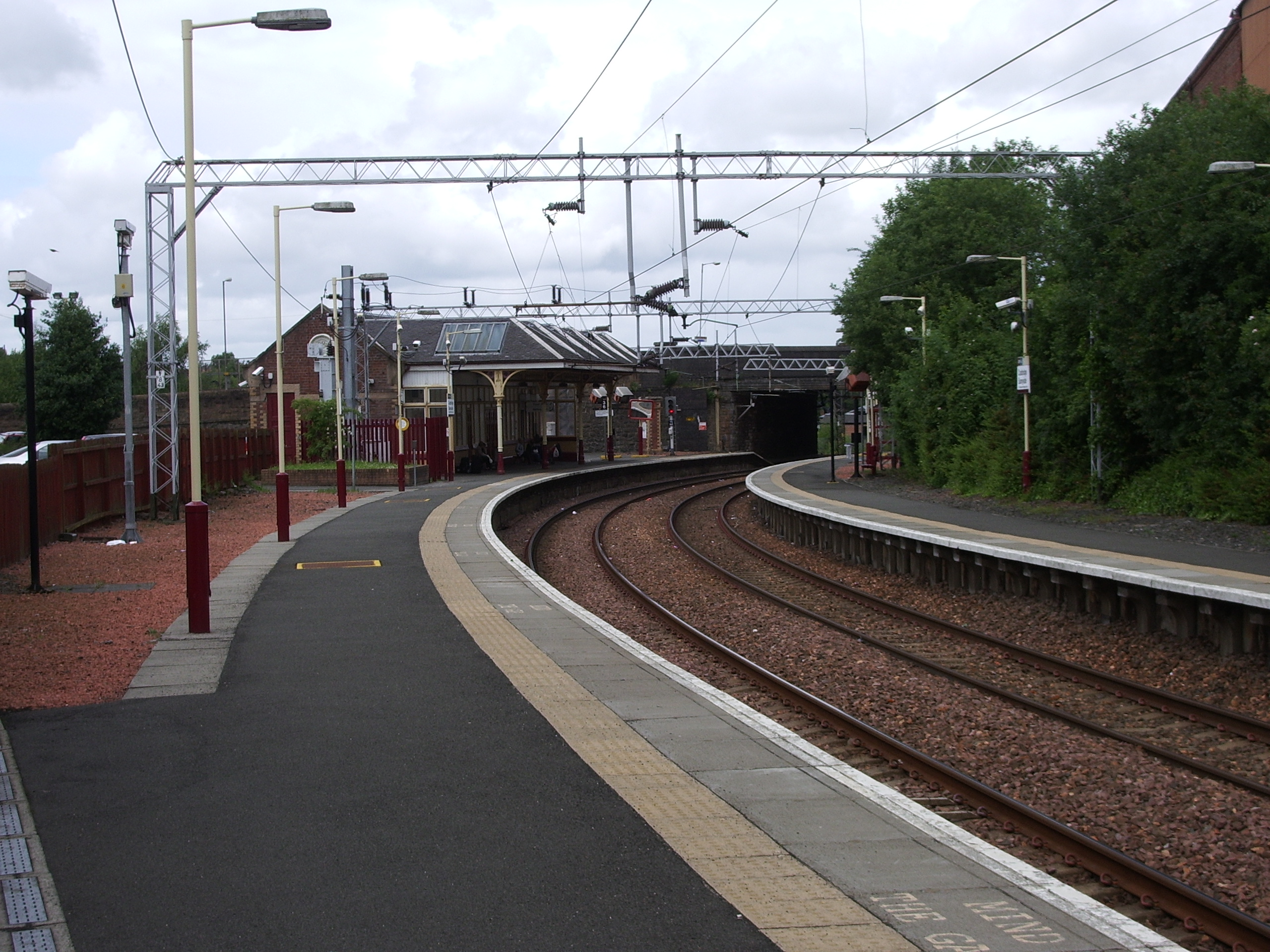 Coatbridge Sunnyside railway station, Coatbridge, Scotland, looking west